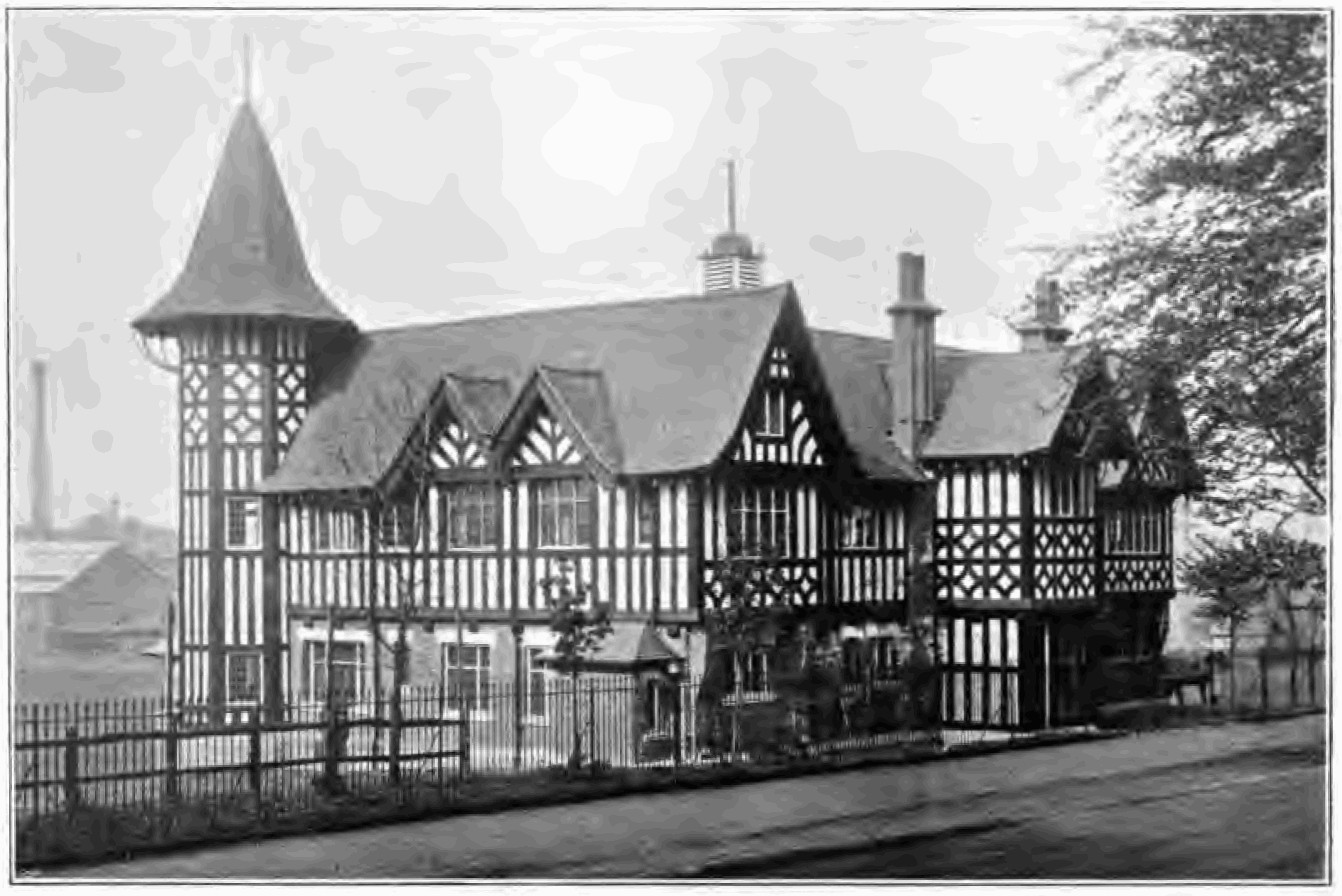 Coronation cricket pavillion in Bournville. A bit more detail